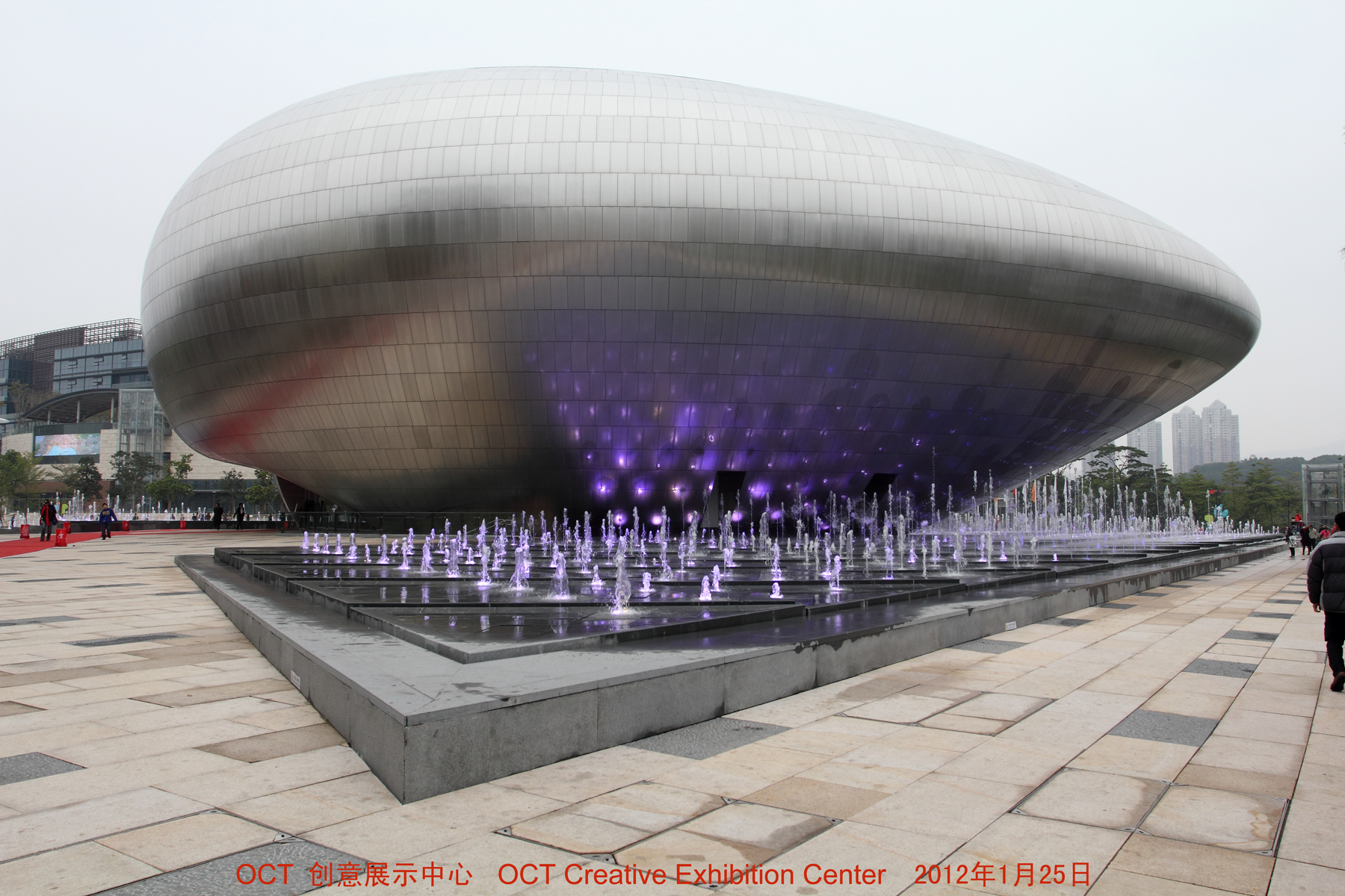 OCT 创意展示中心 OCT Creative Exhibition Center